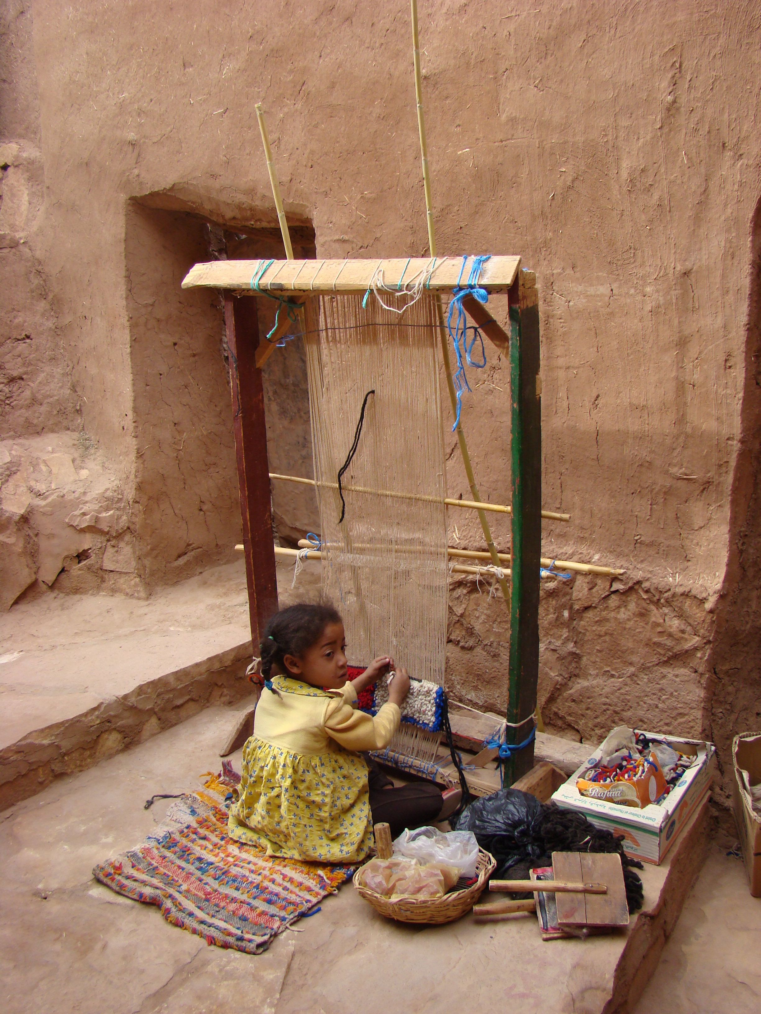 Young girl working in Aït-Ben-Haddou, Morocco